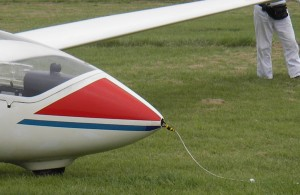 At Itakura Gliderport, Gunma, Japan. Aerotow rope is attached to the nose hook of a Twin II tanden sailplane.